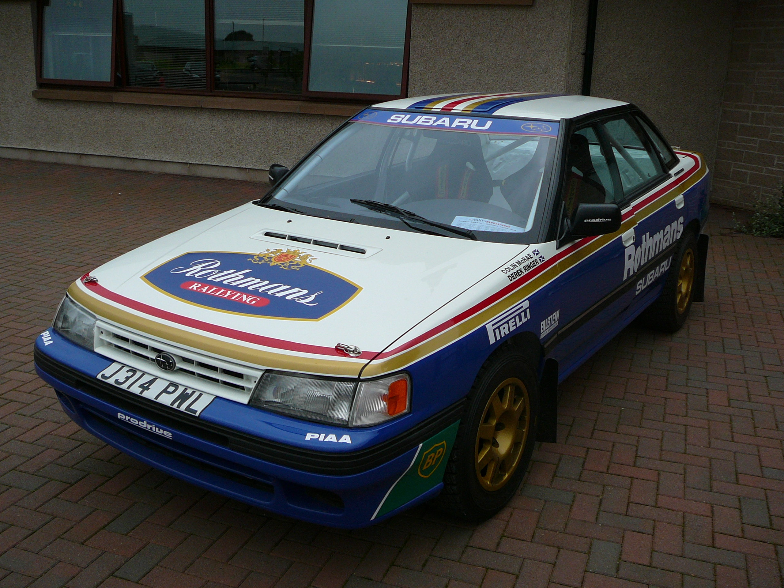 Colin McRae's Subaru Legacy Rally car